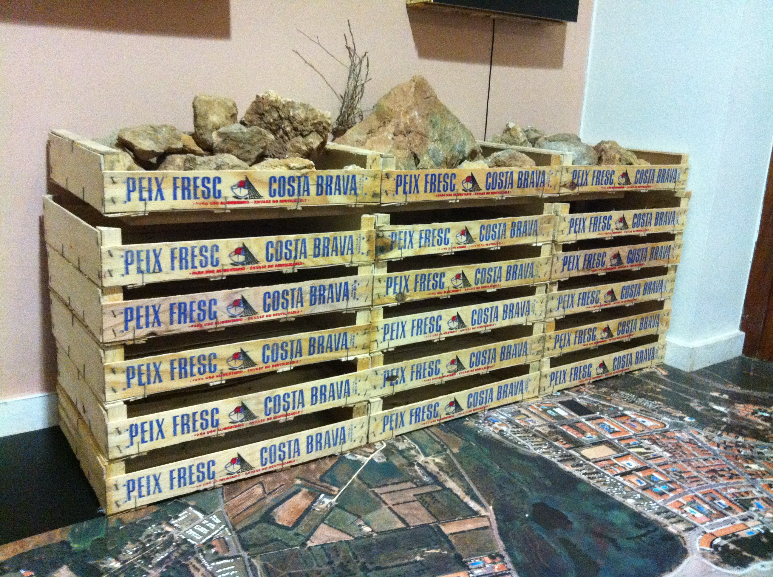 Exhibit about the Medes Islands at Museu de la Mediterrània, Torroella de Montgrí, Catalonia